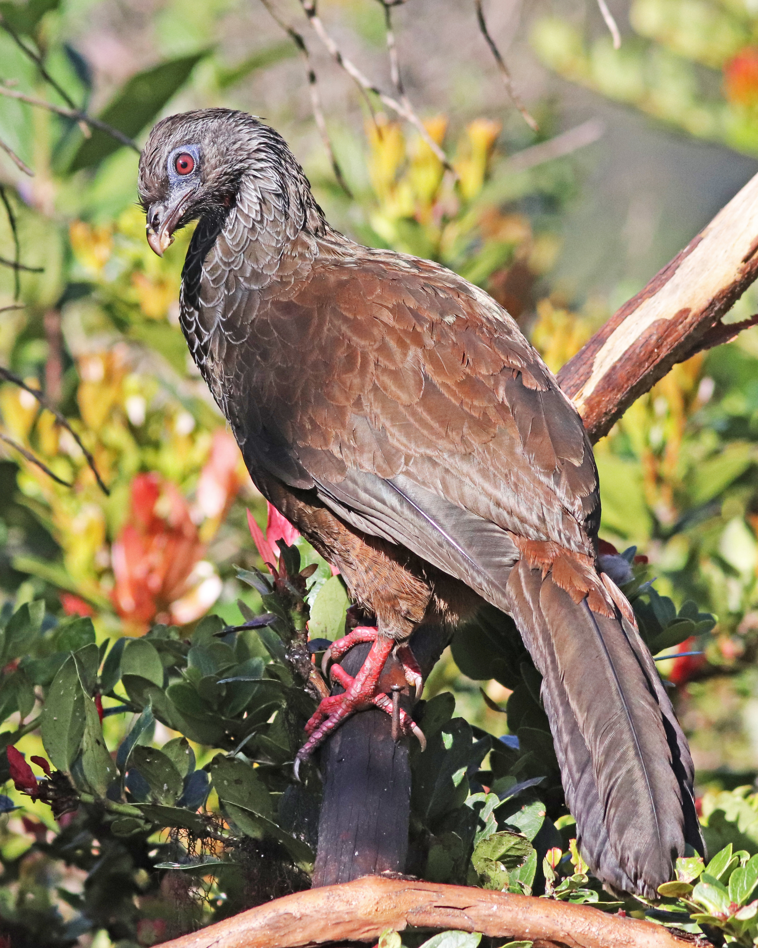 photo of Andean Guan resting in a tree in Yanacocha Reserve, Ecuador